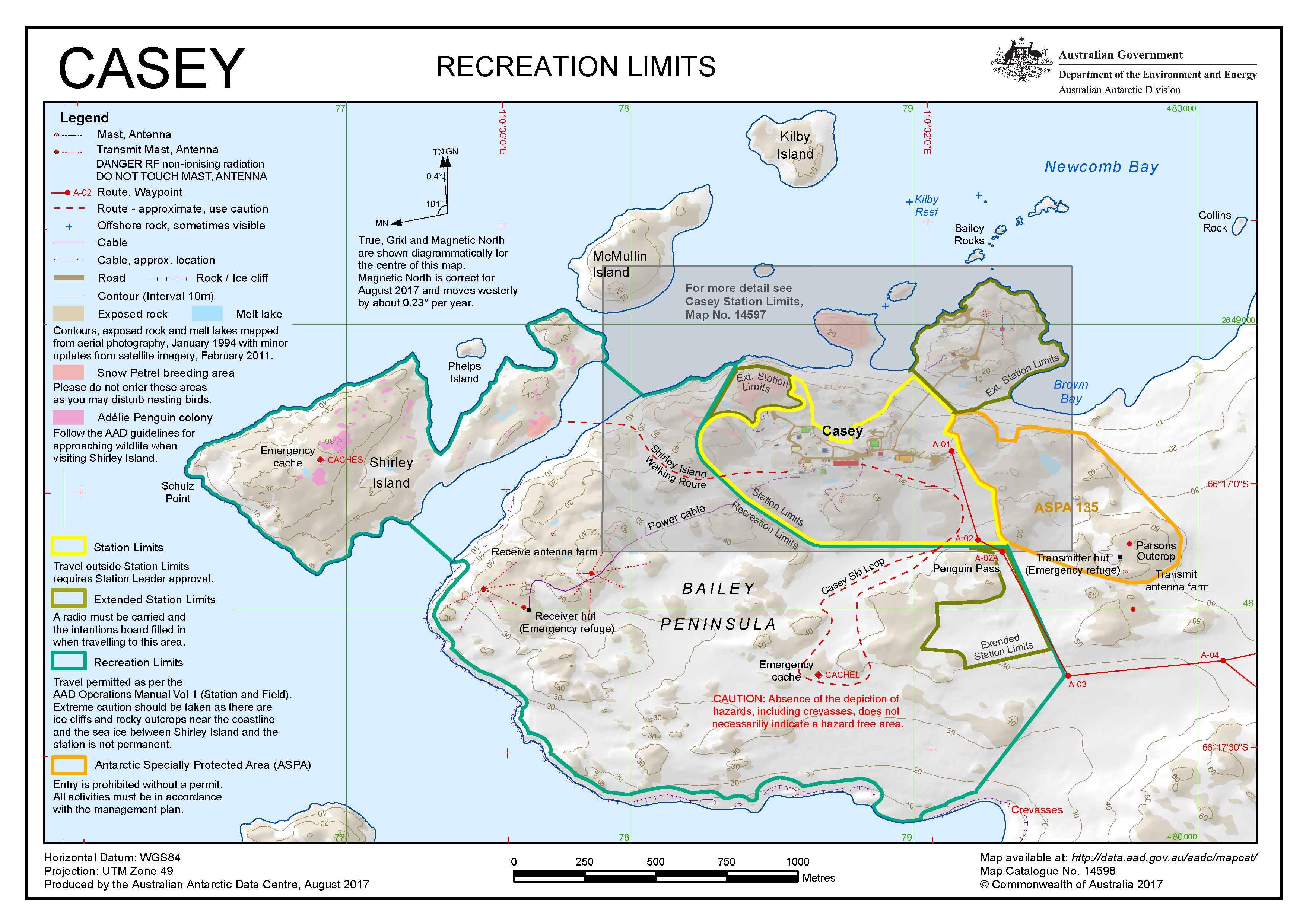 Map of the Bailey Peninsula, Antarctica, with adjacent islands and the Australian Casey Station